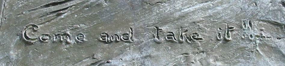 "Come and Take It", from the monument in Gonzales, Texas. Photograph by J. Williams (Jul. 6, 2003).